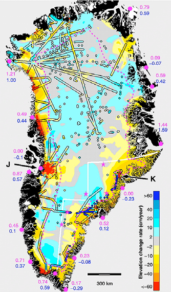 Greenland Ice Changes 1997 – 2003: The following image shows rates of elevation change in Greenland measured along aircraft flight lines during 1997-2003, superimposed on a map of measurements from 1993-1999. Warm colors indicate elevation loss and cool colors represent elevation gain. Dark areas of red and blue indicate the highest rates of change, -/+60 cm/year respectively.